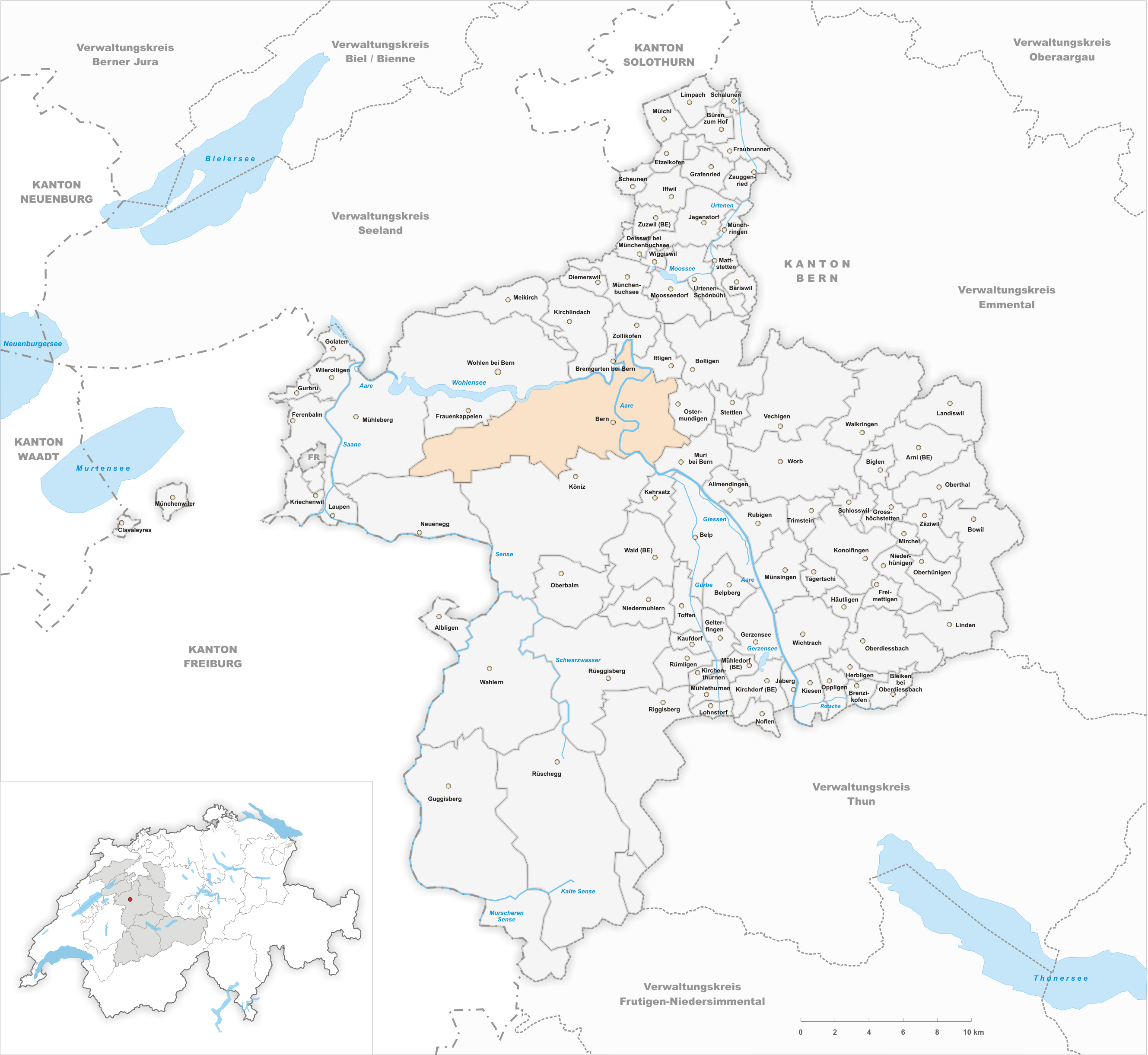 Municipality Bern